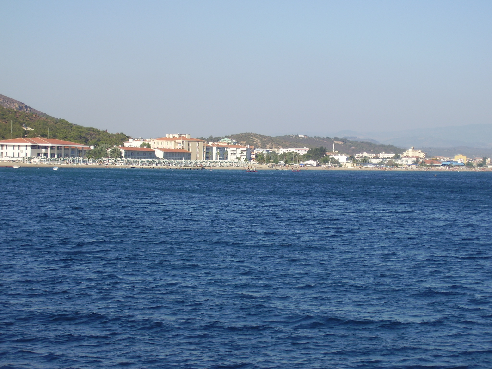 Sarımsaklı, western Turkey - view from the sea